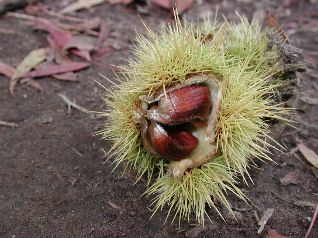 Chestnut on the ground, partially broken open.